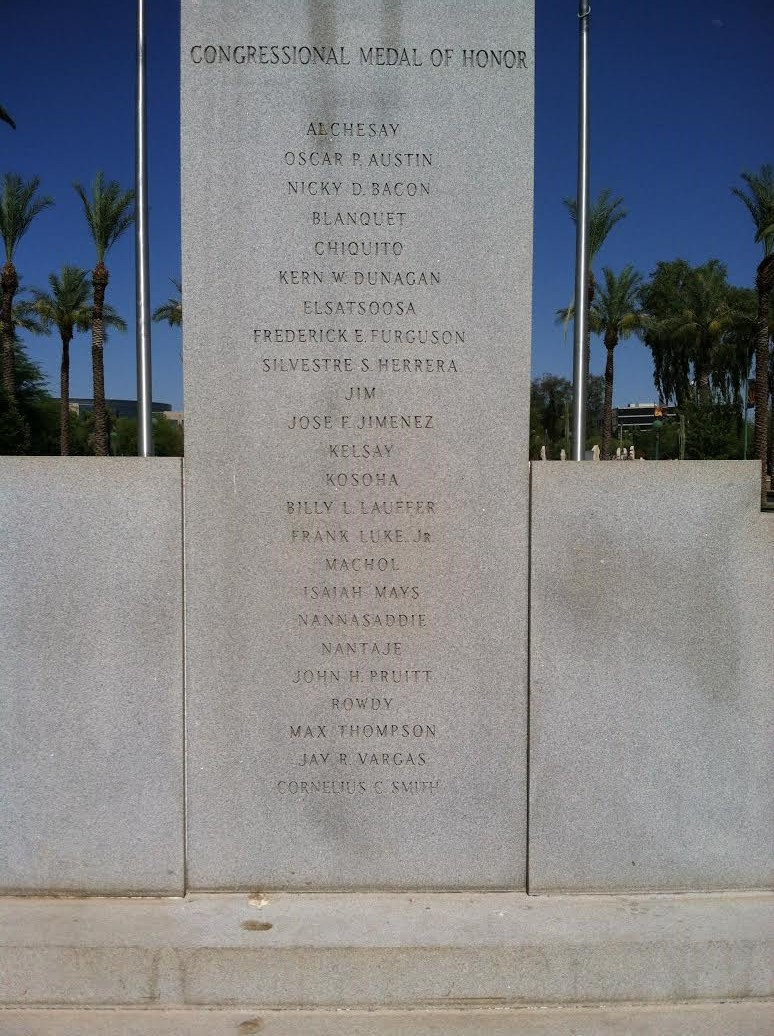 Arizona War Hero Memorial This file is free content and was scanned by the family of Nick Bacon from an image of their own creation in 2008 and is used with their permission. It has no copyright and is thus free to be used as public domain/free use. Shown courtesy of the Arizona State Capitol Museum in Phoenix, AZ, a public display.